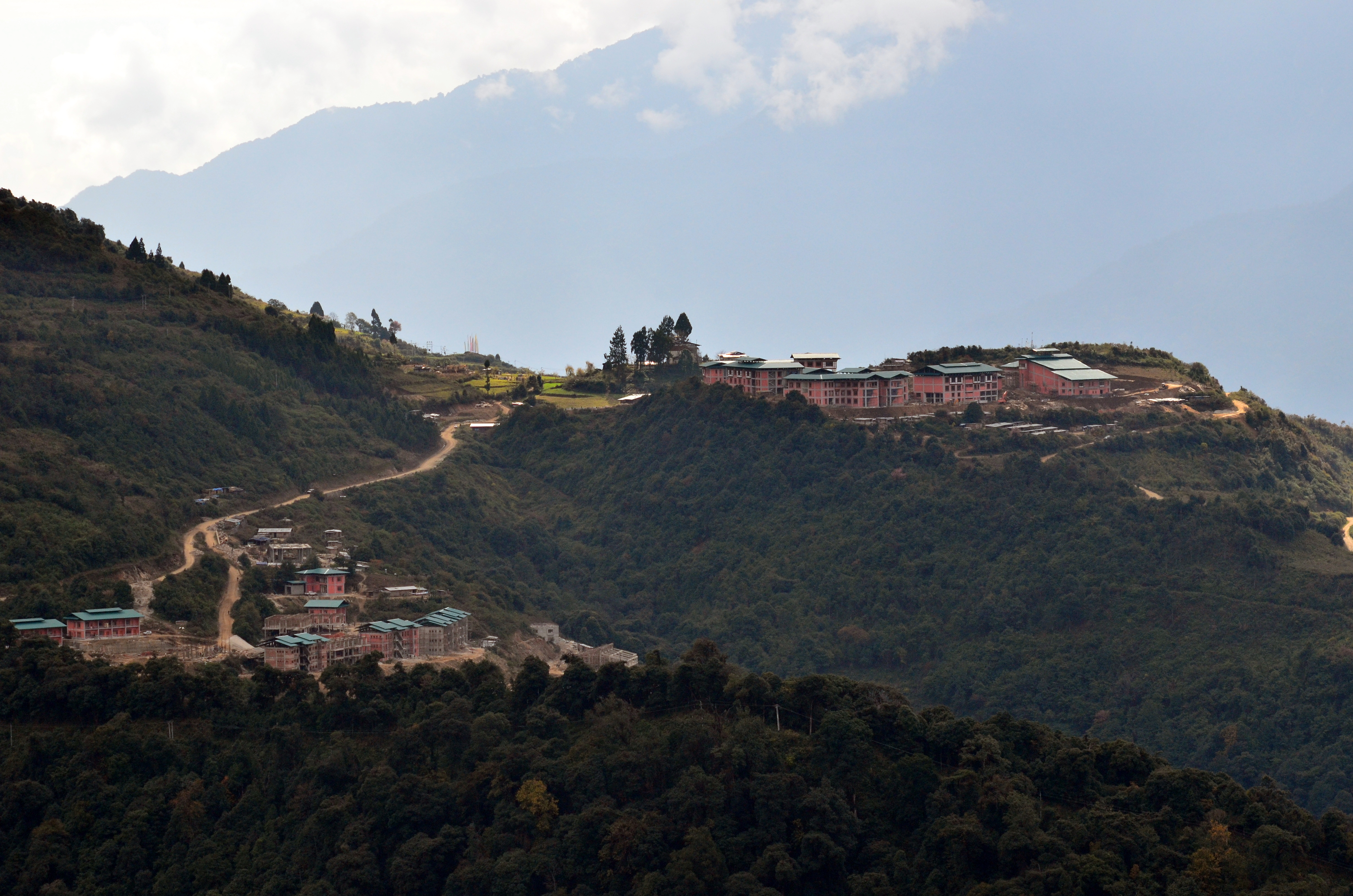 New campus of the Institute of Language and Cultural Studies (ILCS), Taktse, Trongsa District, Bhutan.